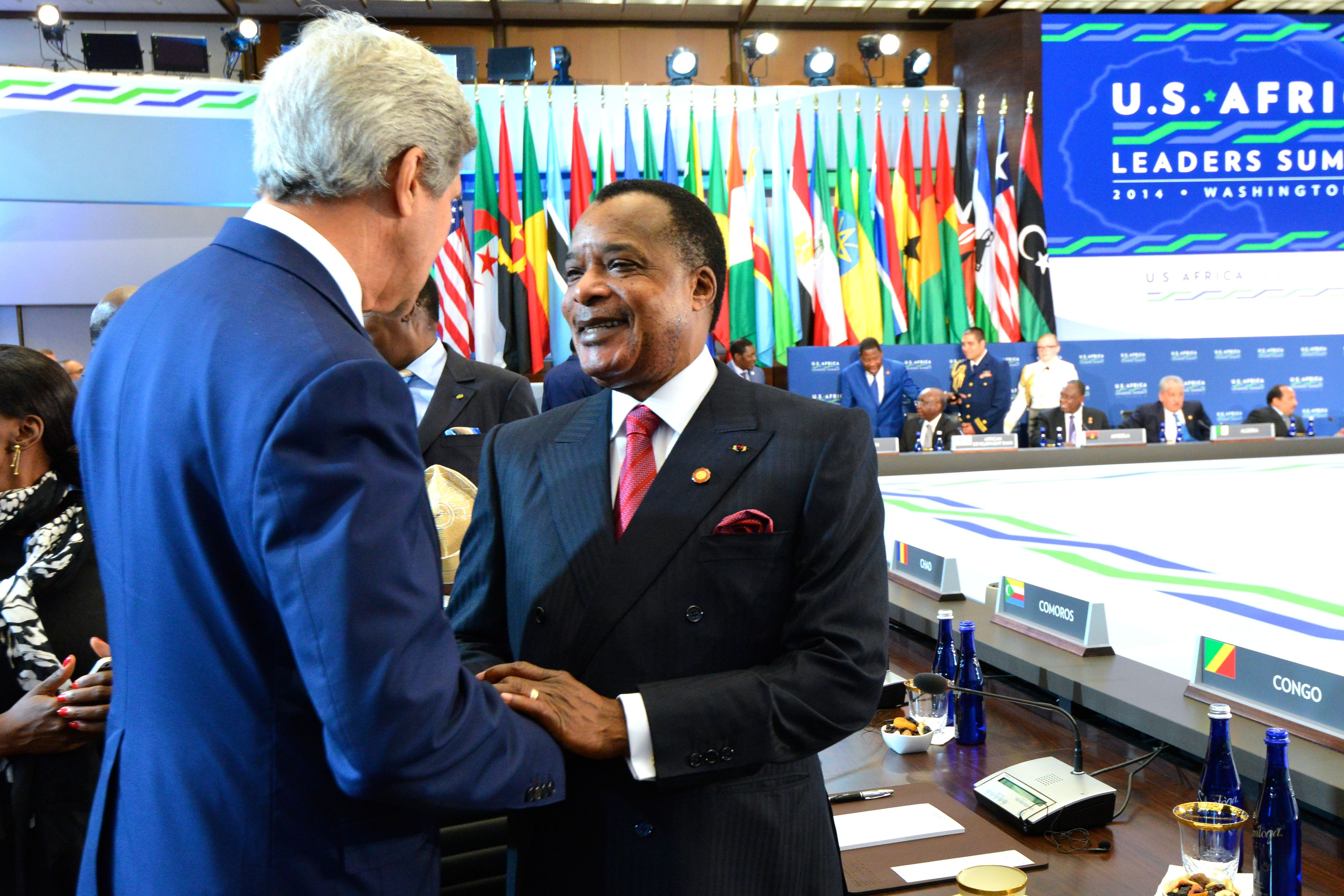 U.S. Secretary of State John Kerry greets the Republic of Congo's President Denis Sassou Nguesso before the start of the U.S.-Africa Leaders Summit Session One on “Investing in Africa’s Future,” at the U.S. Department of State for the final day of the U.S.-Africa Summit in Washington, D.C., on August 6, 2014.